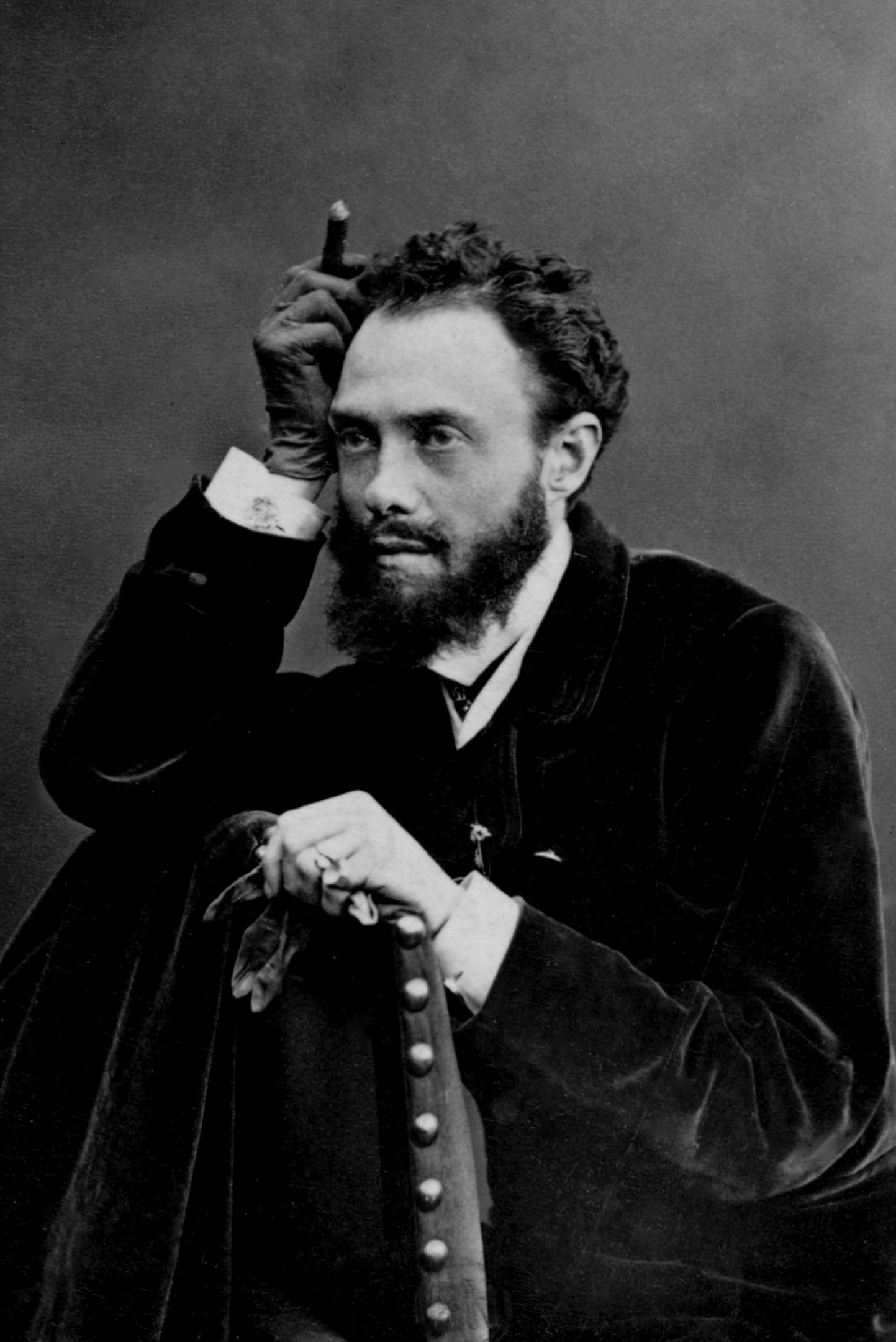 Photograph of the painter Ludovic Lepic